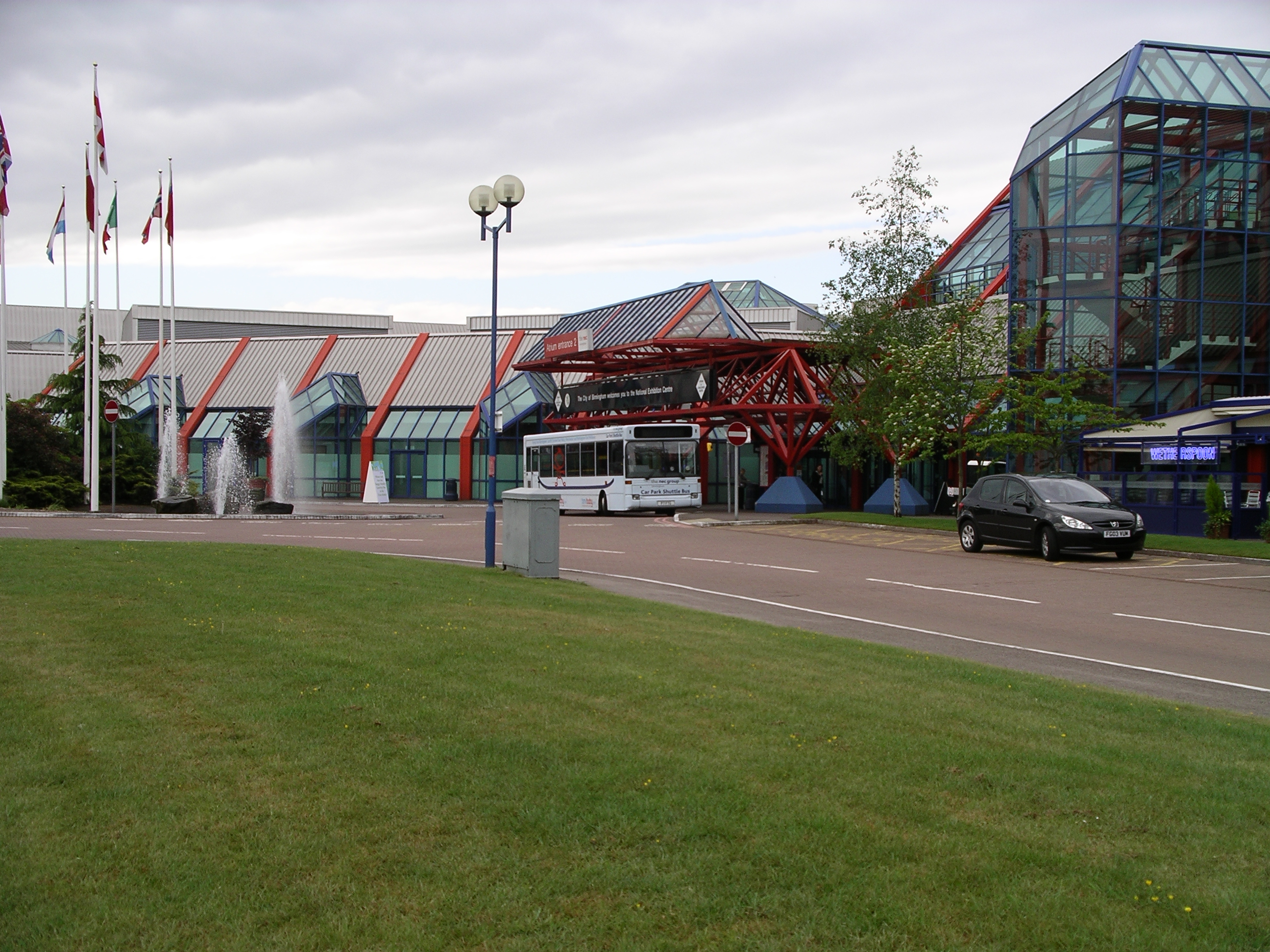 Photograph of the entrance 3 at the NEC, West Midlands, England.